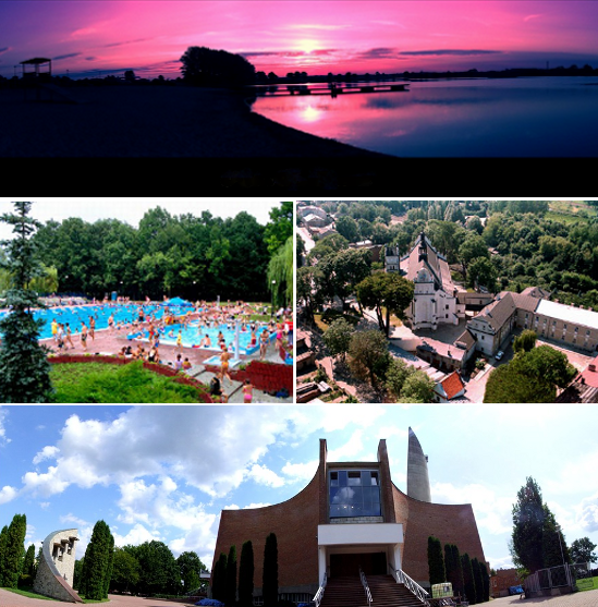 a few photos town Kraśnik in Poland